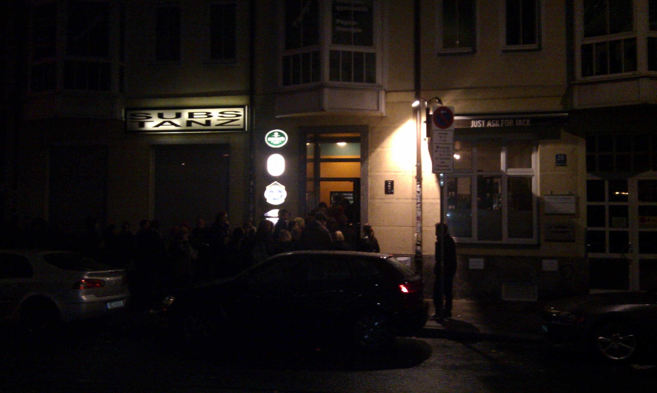 "Substanz" club in Munich